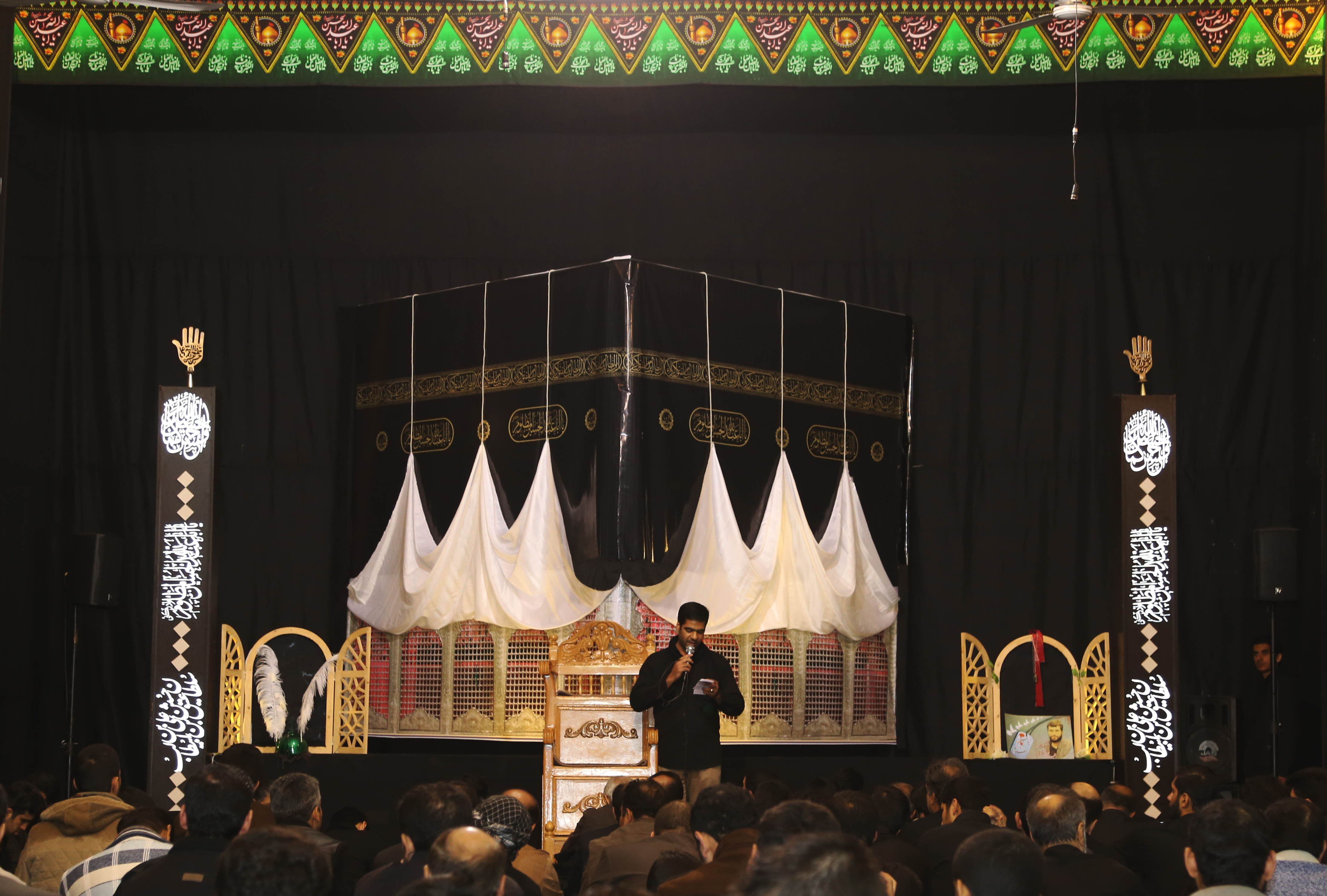 Mourning of Muharram is held in majority of cities and villages in Iran by Shia Muslims annually. Although all sort of ceremonies are performed for Imam Hossein and his followers martyrdom remembrance, they have different styles and rules referring to various cultures.